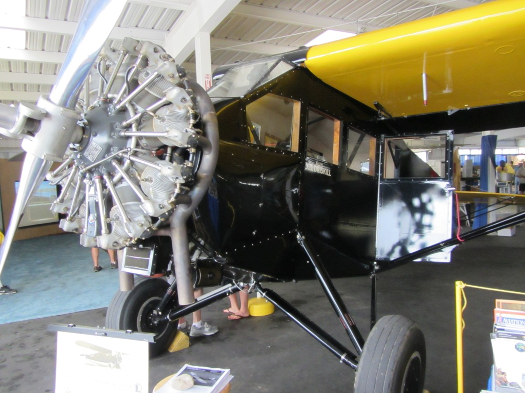 Fairchild FC2W2